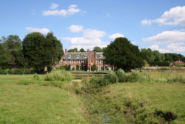 Harrington Hall Ancestral home of the Copledike family and reputed inspiration for Tennyson's "come into the garden Maud". Harrington Hall has Tudor origins, remodelled c1675 with later additions.